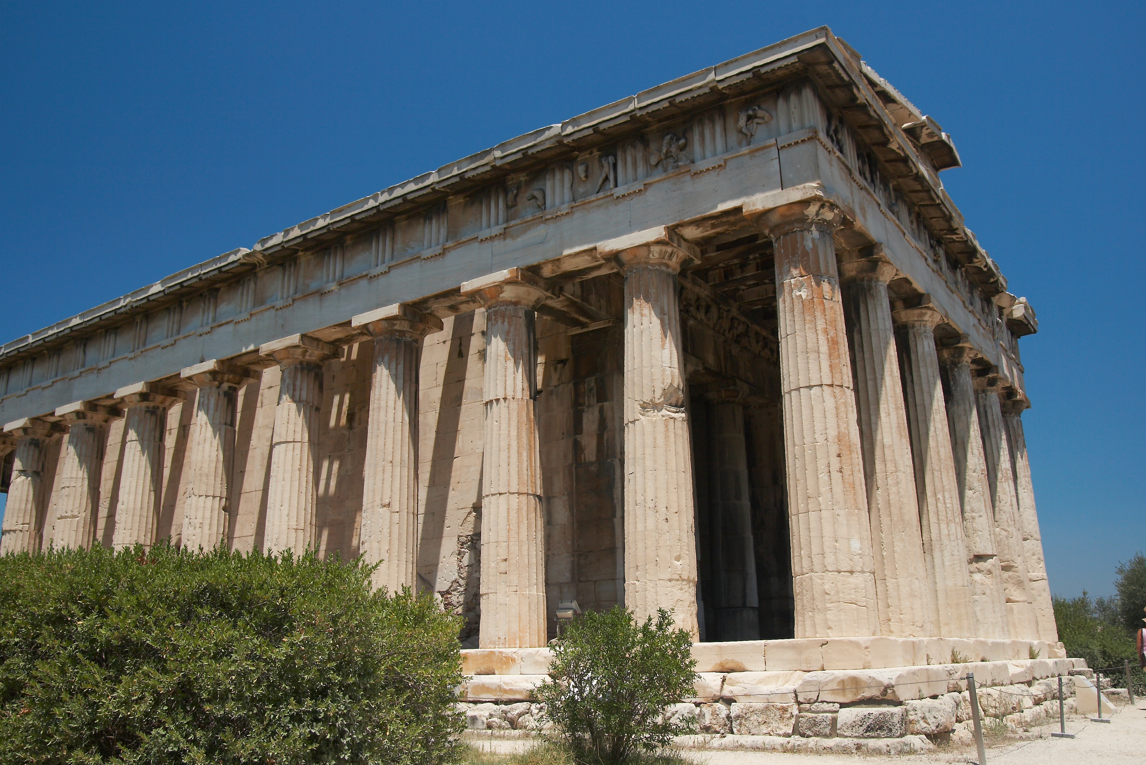 Temple of Hephaestus (Southwest corner), Ancient Agora, Athens, Greece.